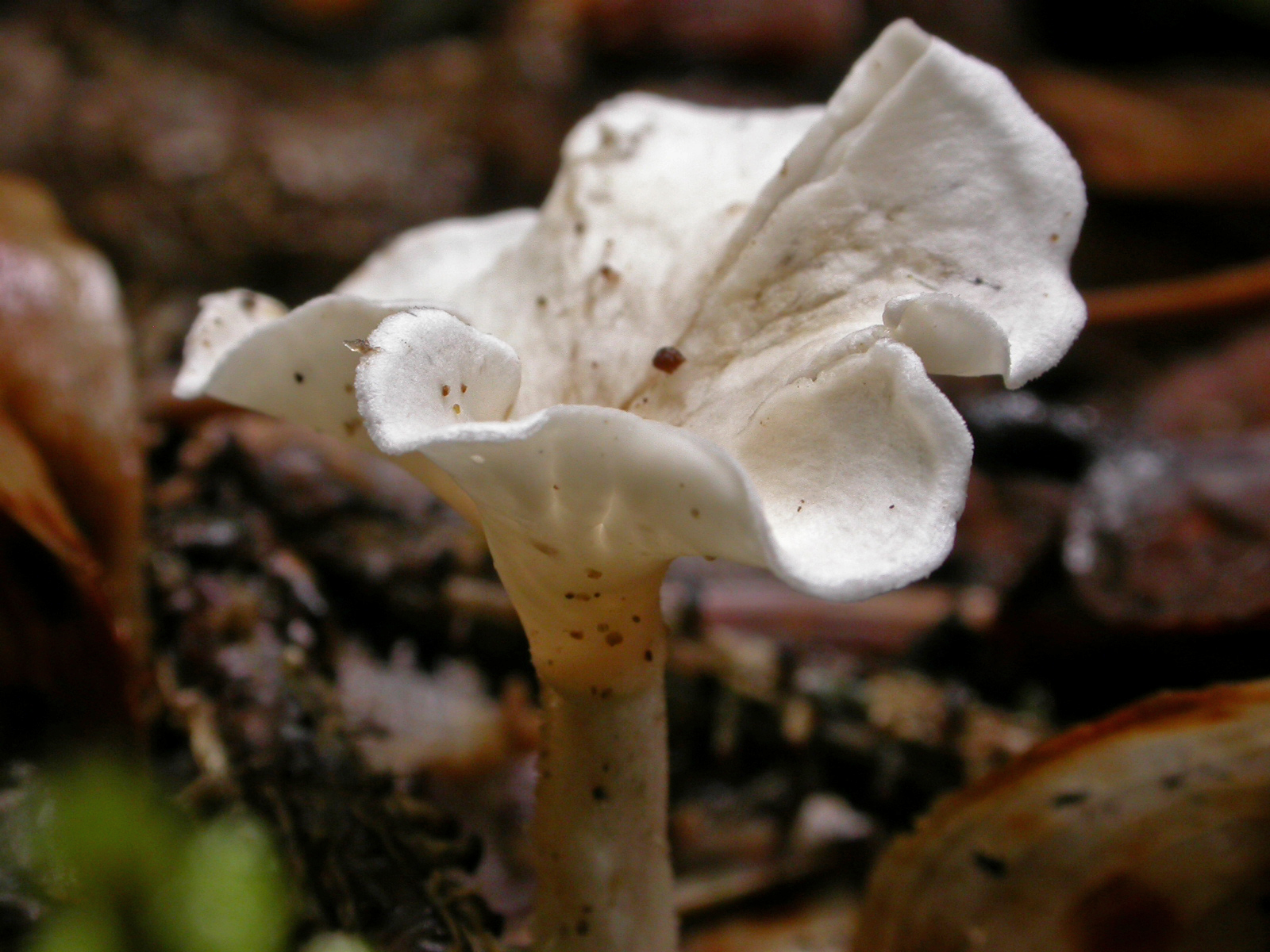 A fruit body of the fungus Stereopsis humphreyi (Burt) Redhead & D.A. Reid. Photographed in Pacific Rim National Park Reserve, British Columbia, Canada. Notes: "Stereopsis humphreyi is considered rare and grows in duff in hypermarine Western Hemlock, Sitka Spruce forests. It has also been found in the Queen Charlotte Islands."